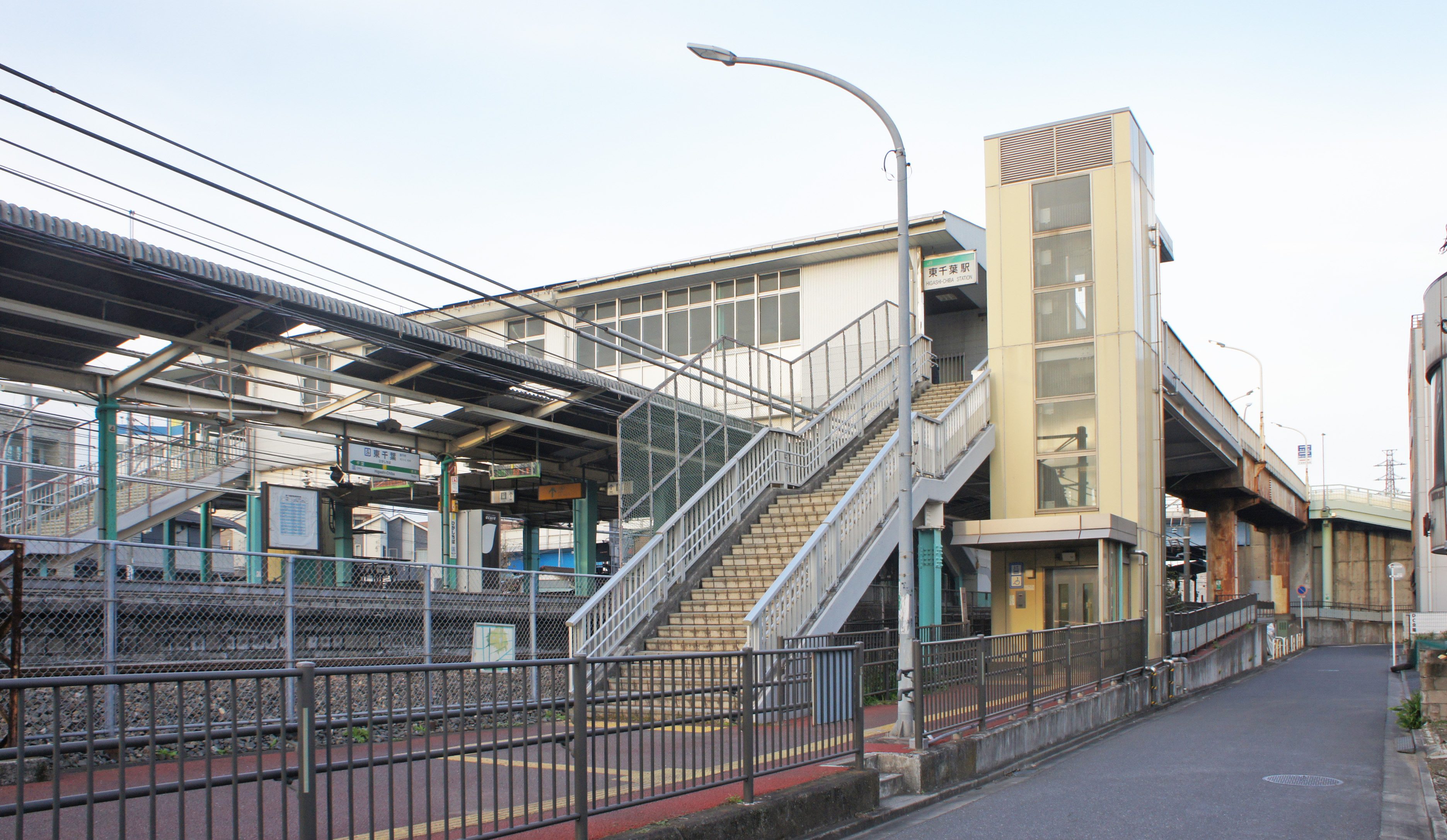 South Exit of JR Sobu-Main-Line Higashi-Chiba Station